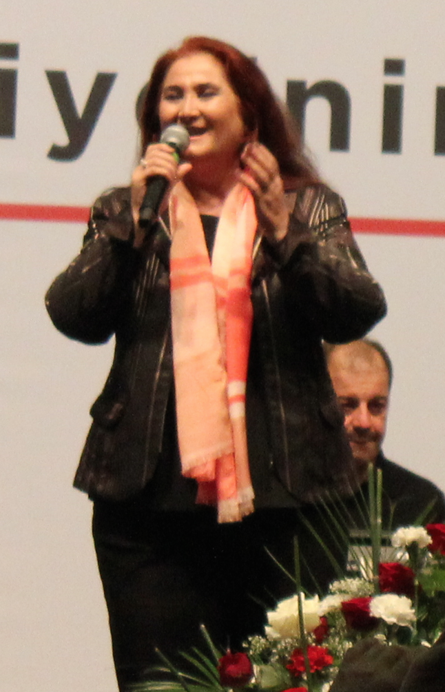 Turkish folk music singer Sebahat Akkiraz in Dusseldorf, 25 April 2015